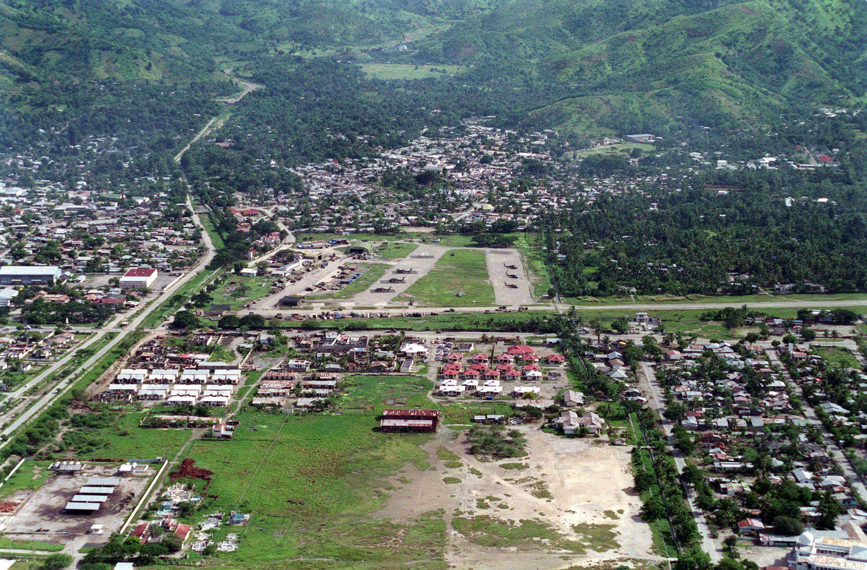 USS Blue Ridge (LCC-19), 10 February 2000, Dili, East Timor--Aerial photos of the Dili, East Timor coastline.